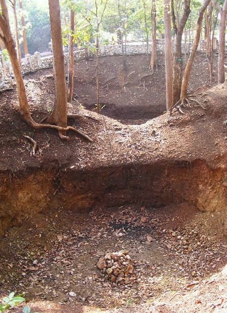 Bo Phrasaeng & Bo Phra Khan (mine iron hole) all call Bo Lek Nam Phi (Bor Lek Nam Phi Folk Museum). Bo Lek Nam Phi, Ban Nam Phi, Nam Phi subdistrict, Amphoe Thong Saen Khan, Uttaradit Province, Thailand.